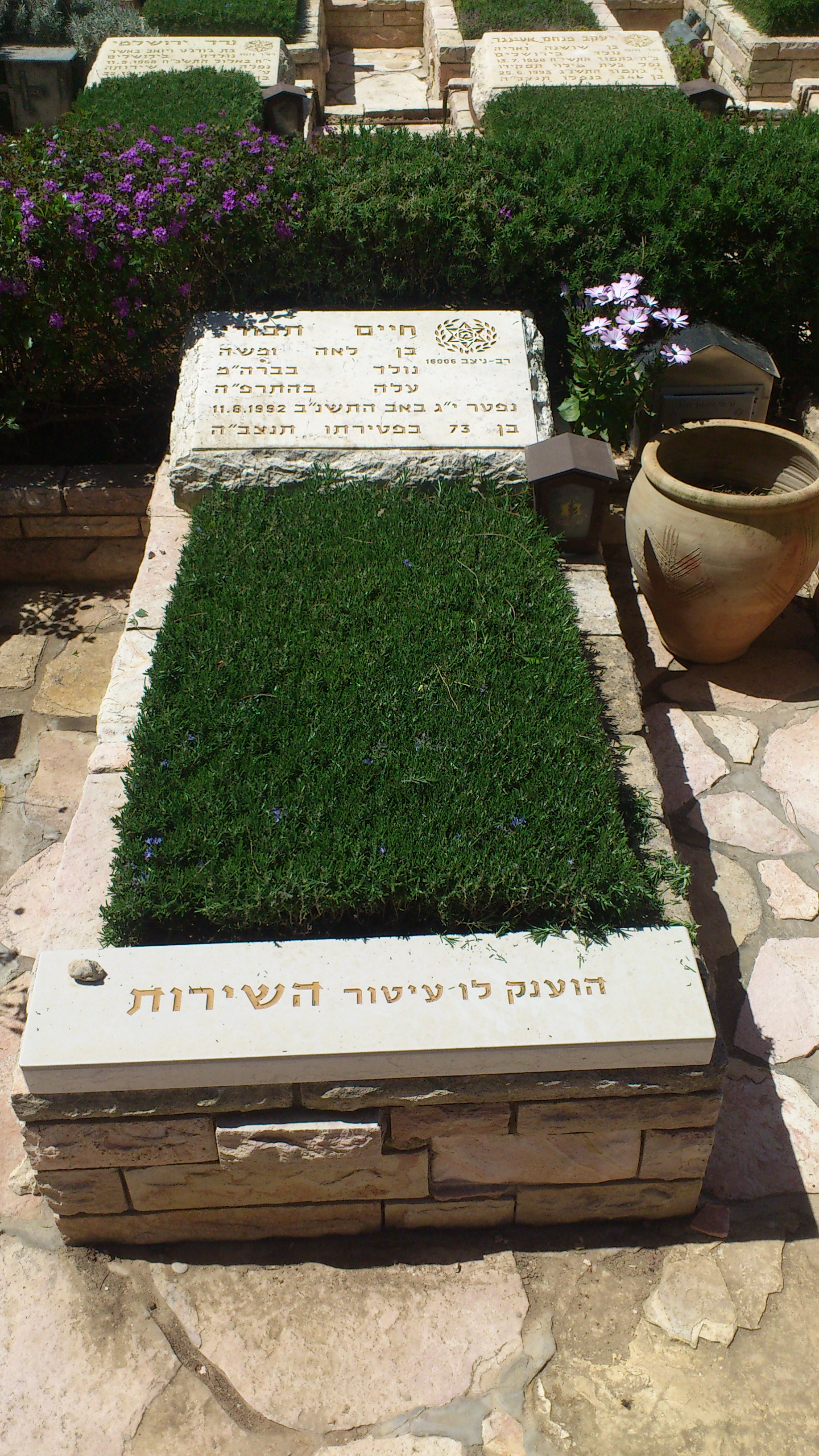 Haim Tavori